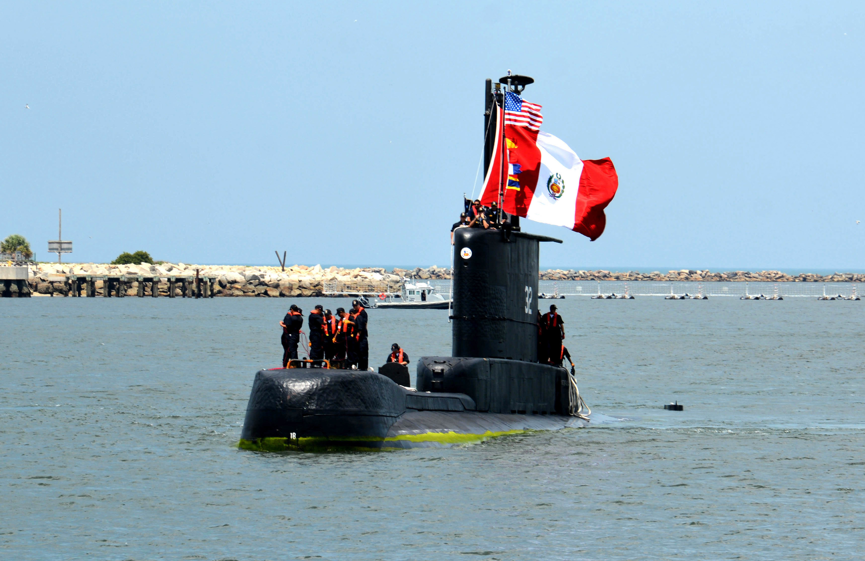 MAYPORT, Fla (July 15, 2015) The Peruvian navy submarine B.A.P. Antofagasta (SS-32) pulls into Naval Station Mayport for a port visit. B.A.P. Antofagasta is part of the Diesel Electric Submarine Initiative (DESI) between the United States and partner nations. DESI is a program designed to train crews and test capabilities in Anti-Submarine Warfare between nuclear-powered and diesel-electric submarines.